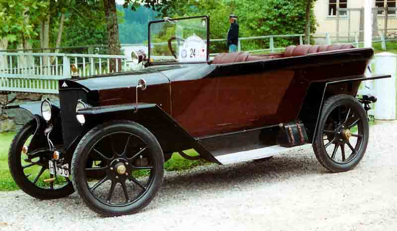 AGA 6/16 PS Typ A Phaeton 1921